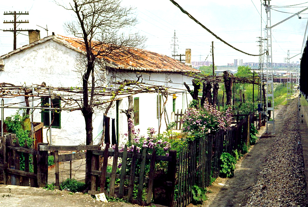 Crossing keeper cabin next to Andalusia railway line. Villaverde. Madrid, Spain